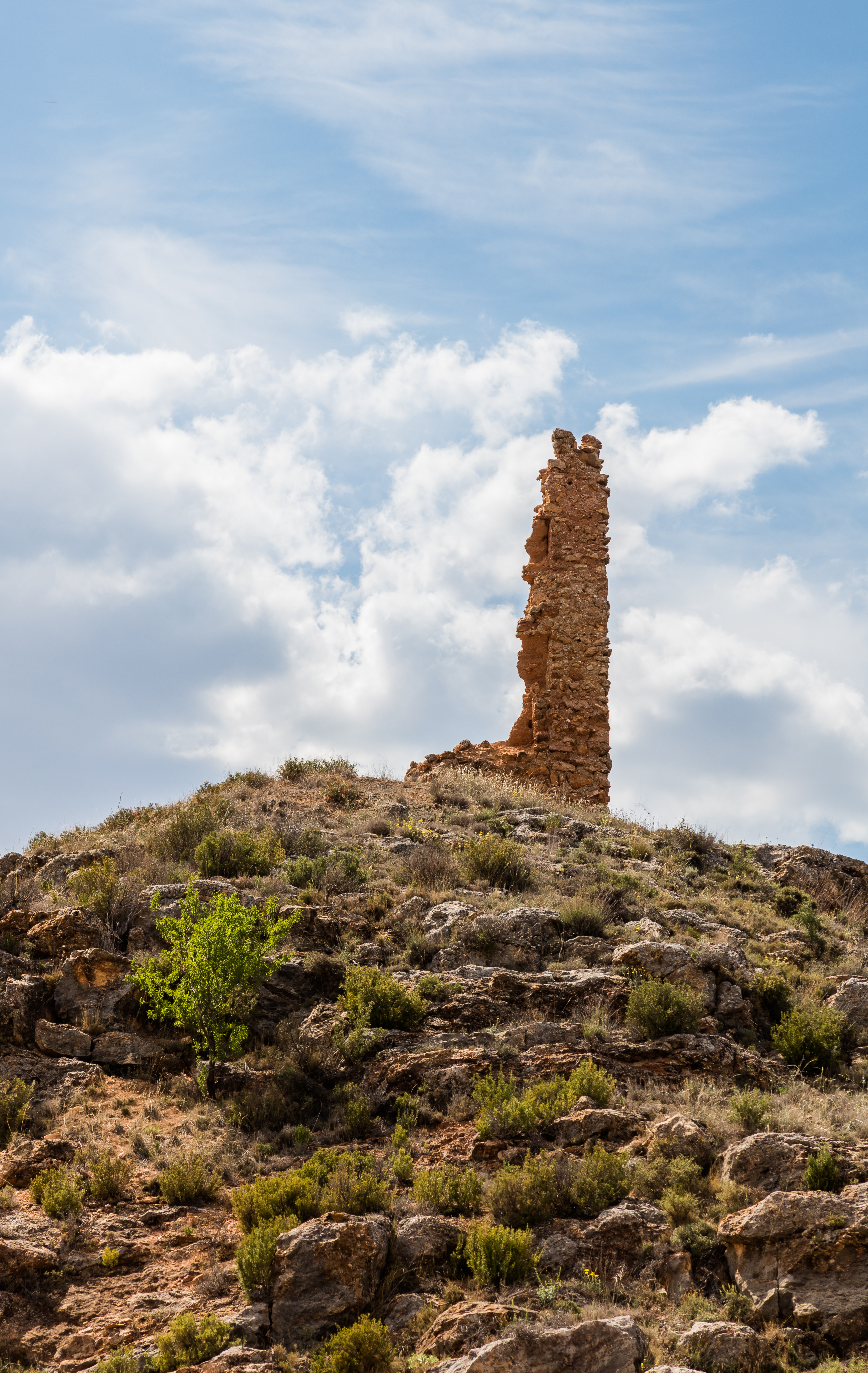 Watchtower of Llumés, Saragossa, Spain